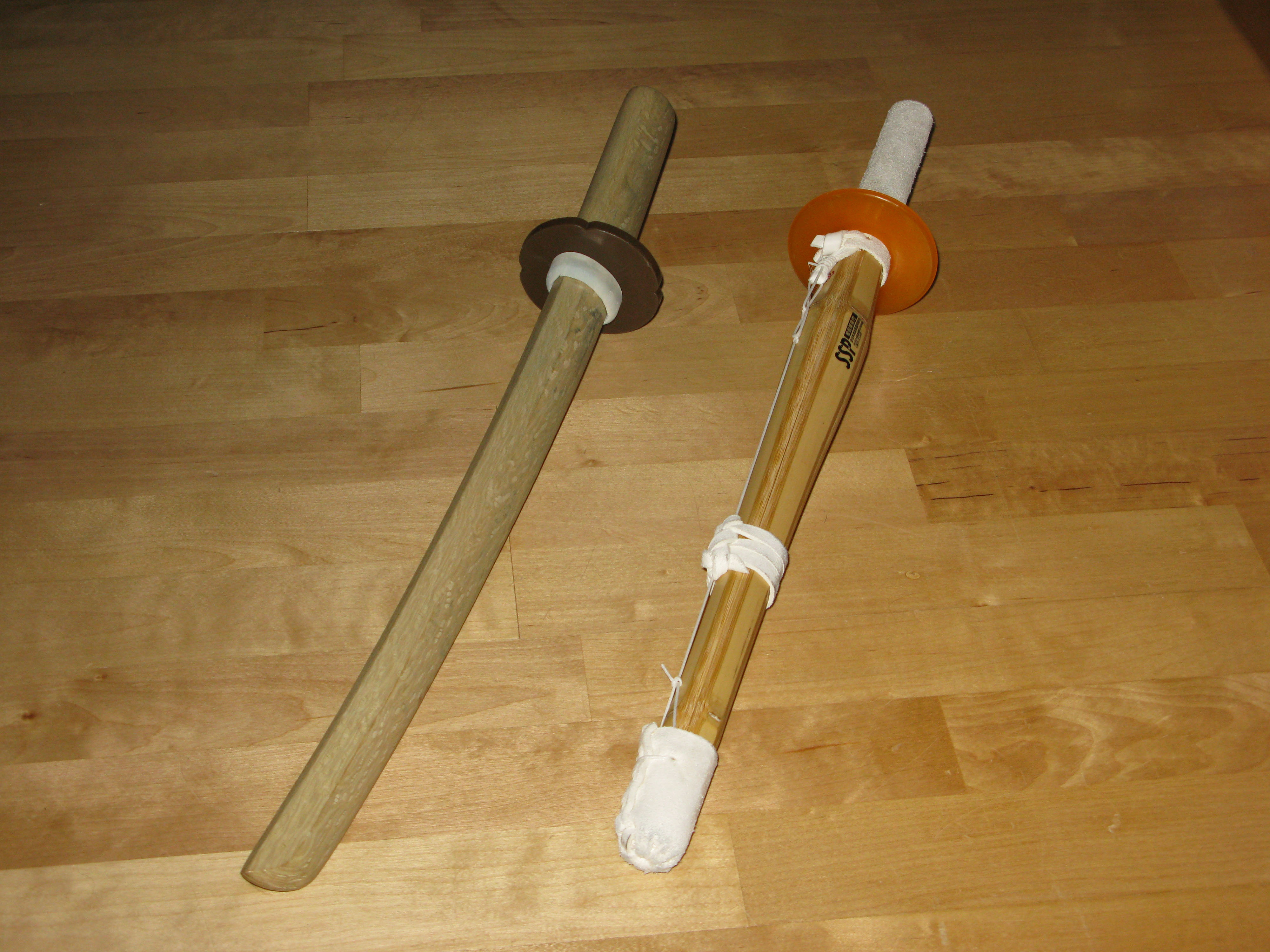 Tankendo swords kodachi and tanchikutō.